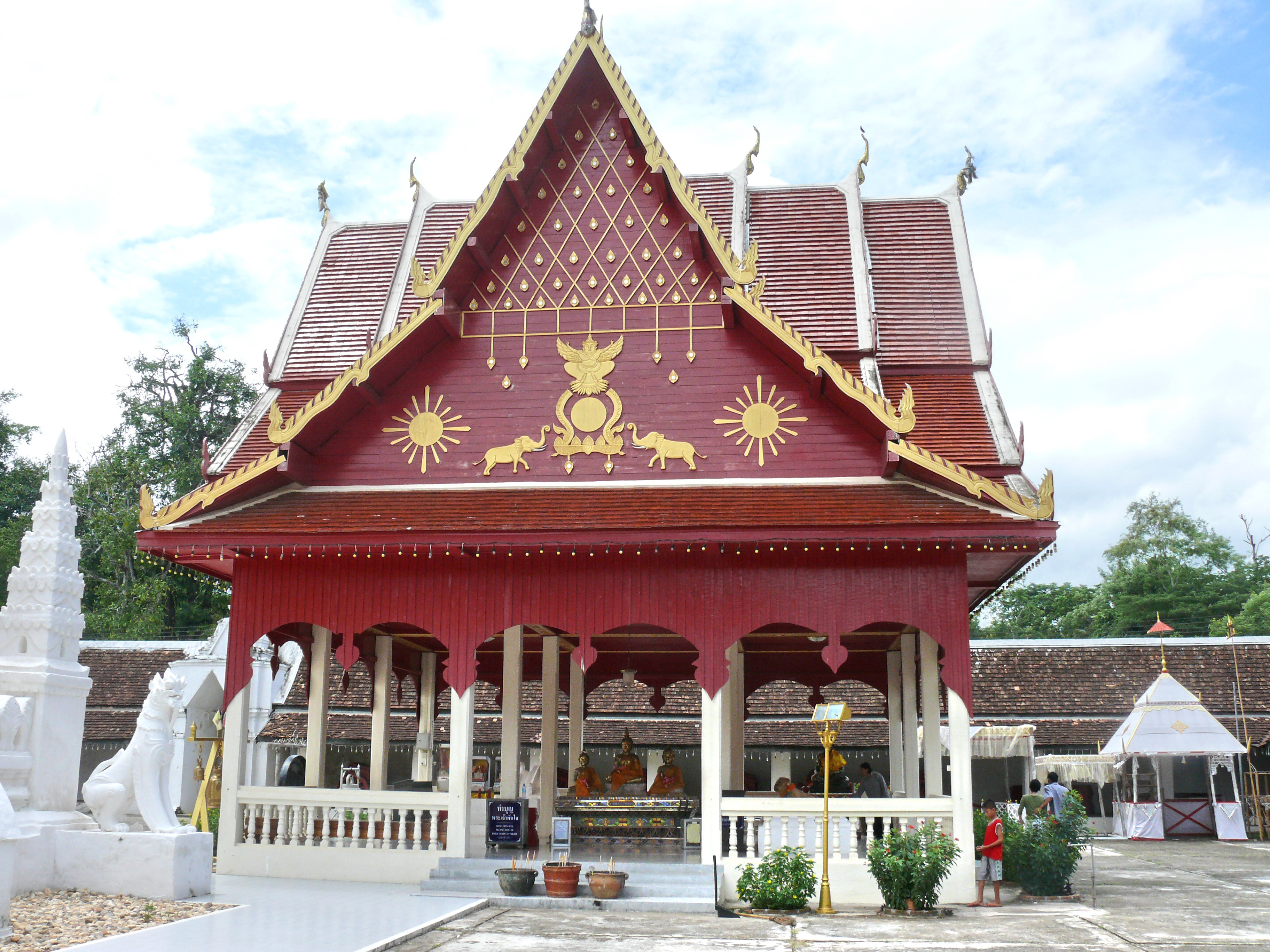 Mondop,_Wat_Phra_That_Chae_Haeng,_Nan, Thailande